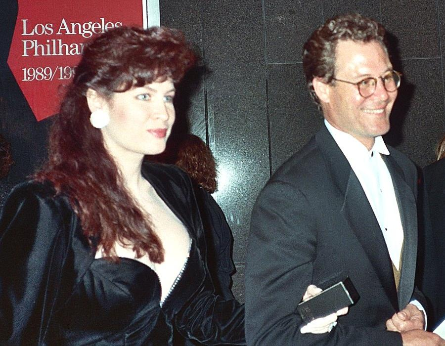 Chris Lemmon at the 1990 Academy Awards. NOTE: Permission granted to copy, publish, broadcast or post any of my photos, but please credit "photo by Alan Light" if you can. Thanks. Scanned from the original 35MM film negative.